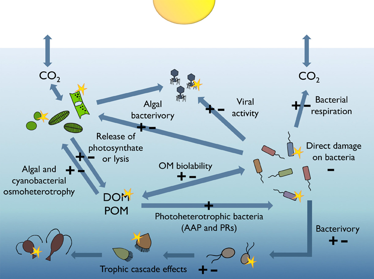 The pelagic marine food web and bacterioplankton Sunlight-modulated interactions among microbes and molecules. Simplified scheme of the pelagic marine food web illustrating the processes susceptible to be modulated by solar radiation either positively (+) or negatively (−), which may ultimately lead to increases or decreases in the heterotrophic activity of bacterioplankton.